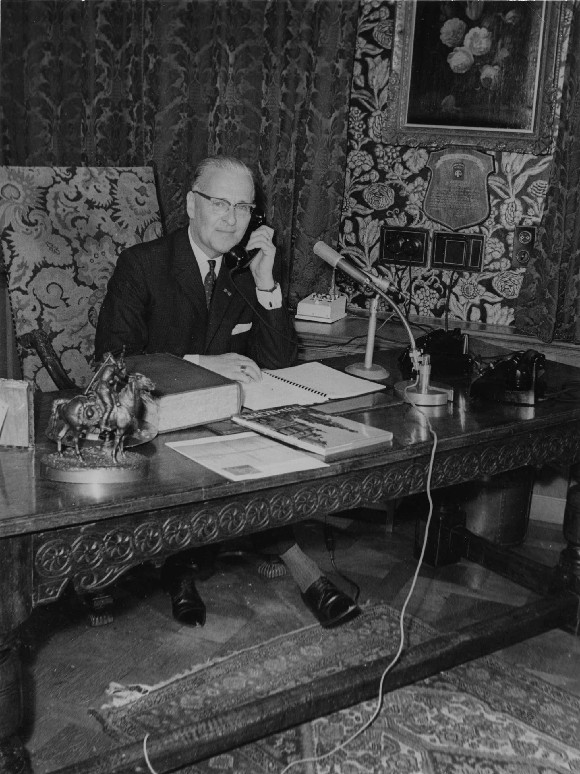 Charles Hustinx, mayor of Nijmegen